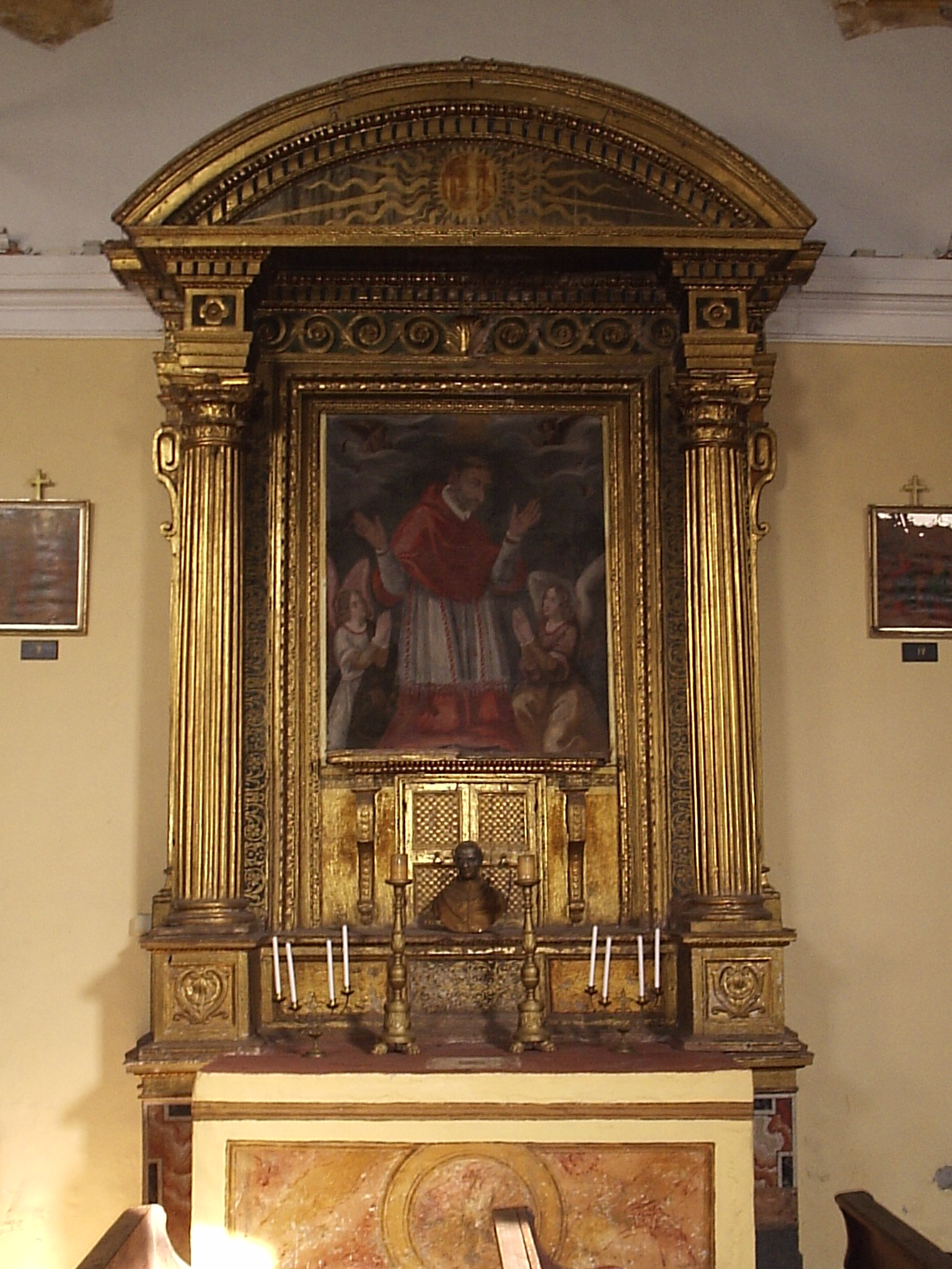 Wooden altar dedicated to San Carlo Borromeo in the church of St. John the Beheaded in Nepi. Author unknown, Seventeenth Century